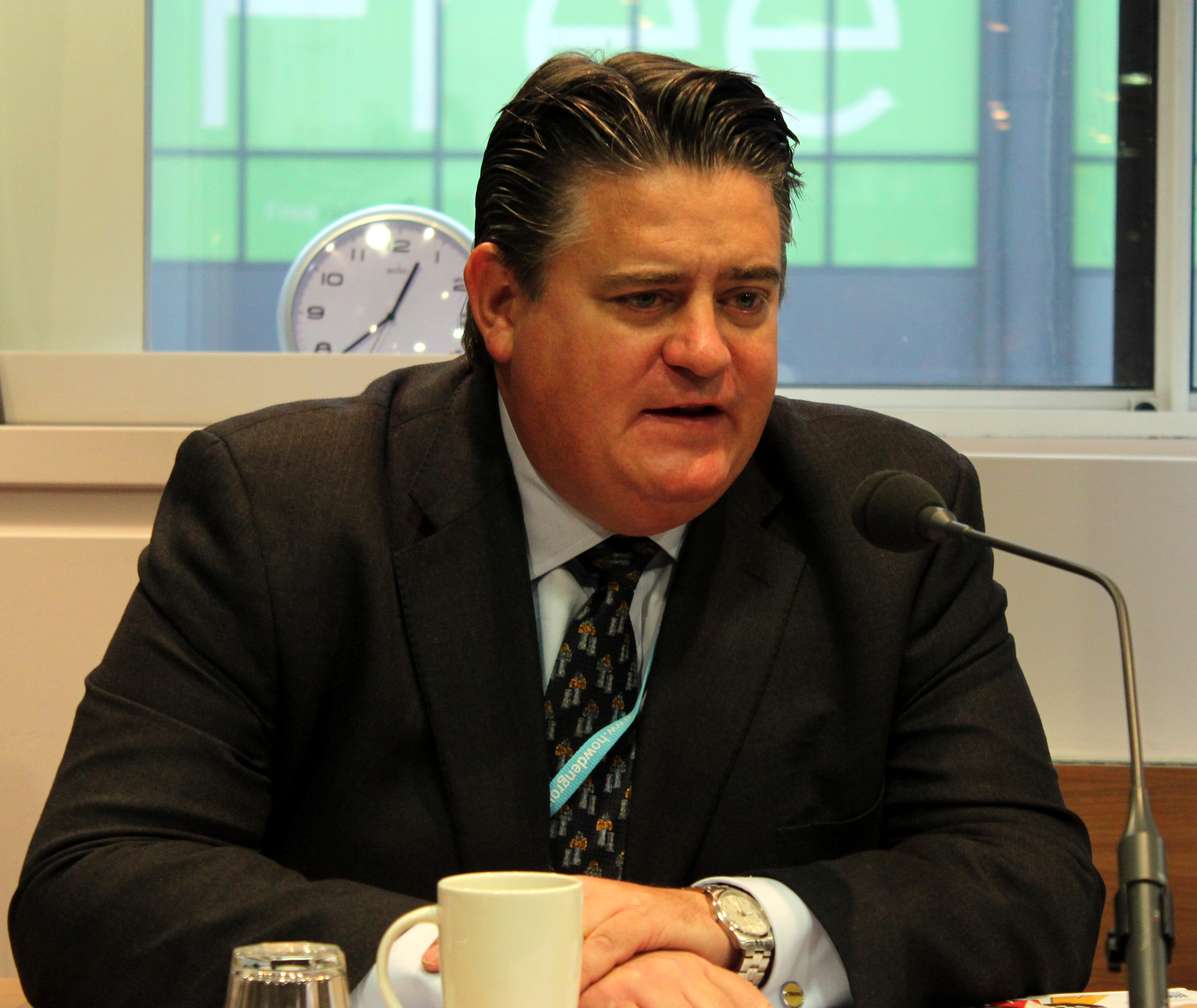 Stephen Greenhalgh, Policy Exchange, 2012. Cropped. Levels adjusted.